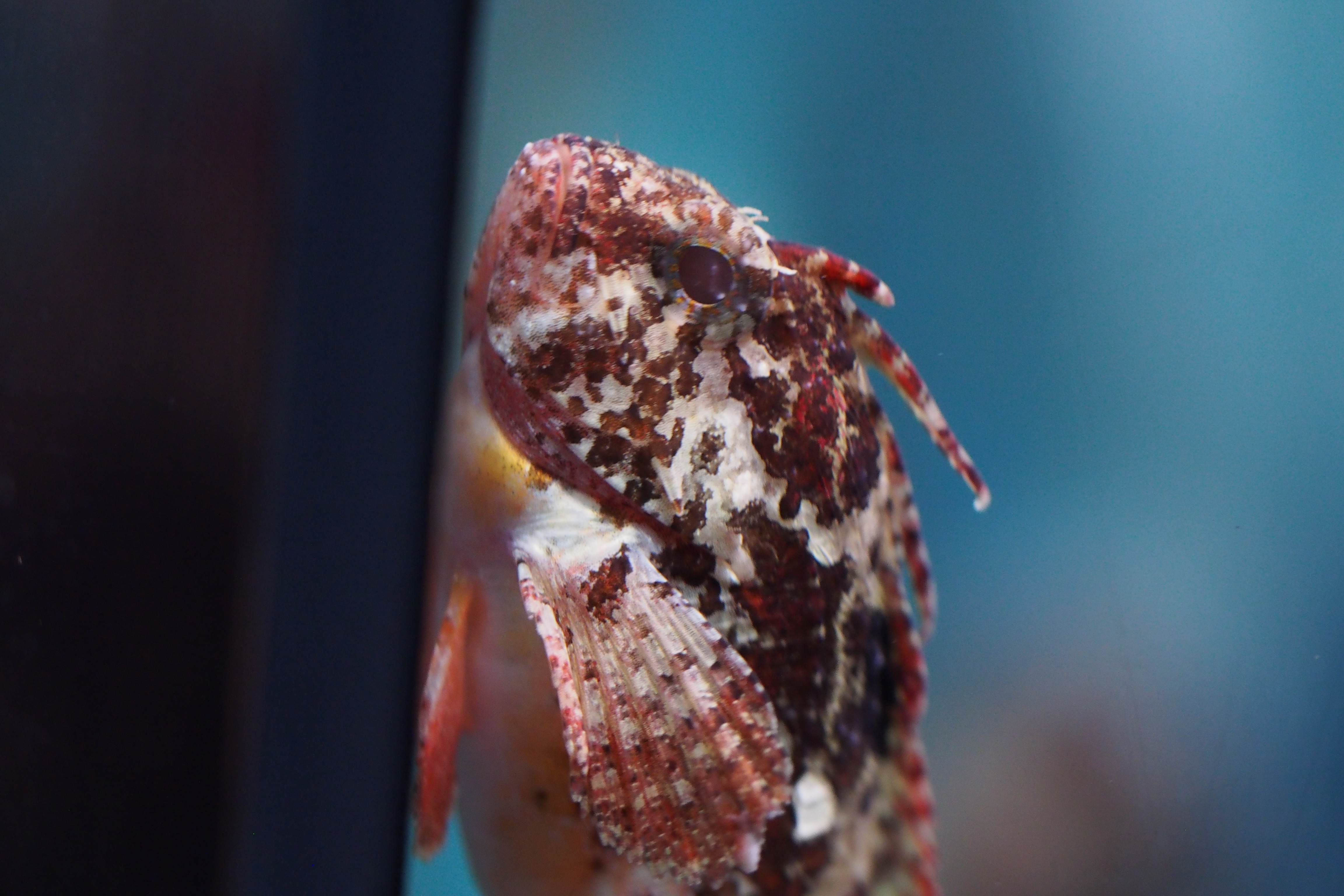 common dangerous fish in my area. ハオコゼ. at Suma aquarium.